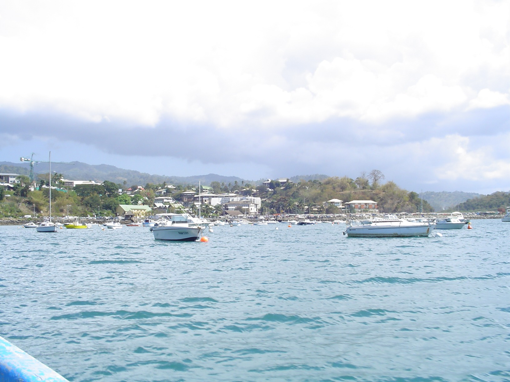 Mamoudzou waterfront